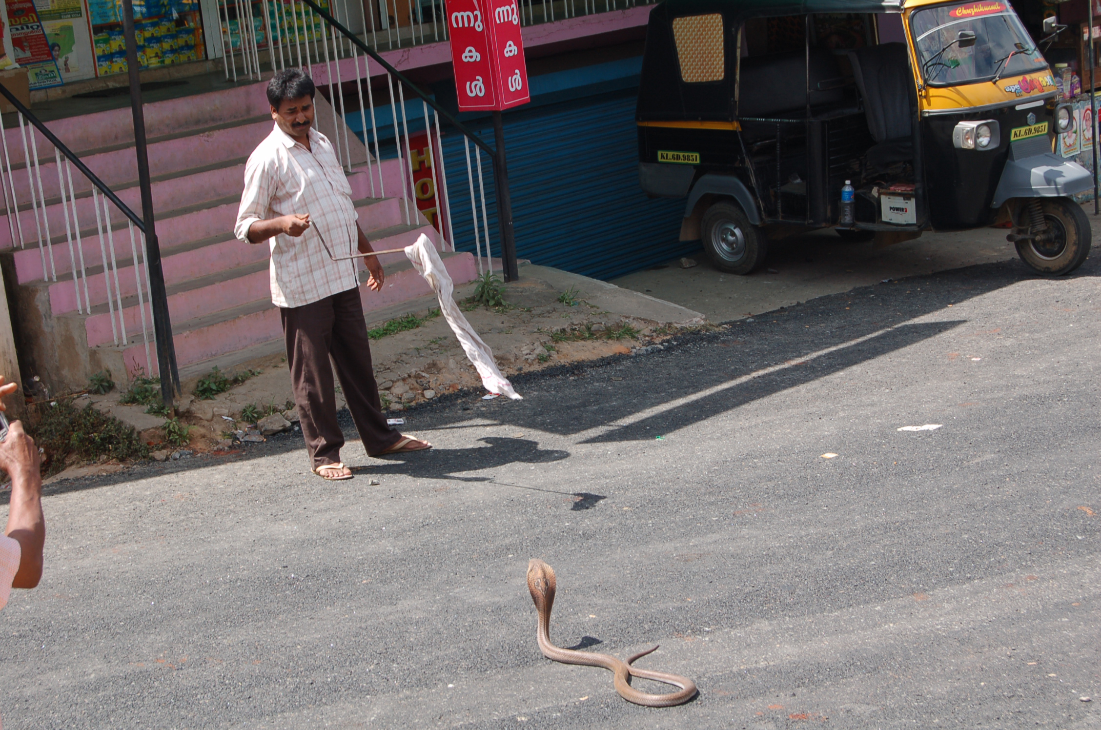 mathew john mangalathil called as bennichan PAMPU